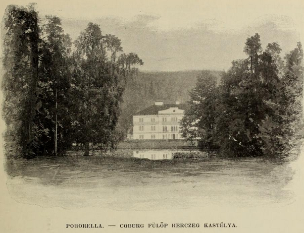 Castle in Koháryháza